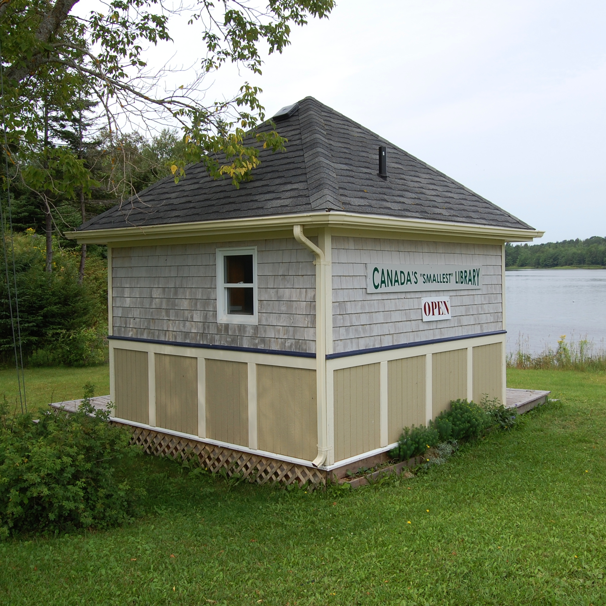 Cardigan Public library, Cardigan PEI. It is self-reputed to be the smallest library in Canada. It is not staffed. There is a door on the far side of the building with a window facing the river. Otherwise the other three walls are lined with book shelves and there is a table and chair. A sign directs borrowers to a separate building across the street to check out selections. Visited by the uploader in 2008.